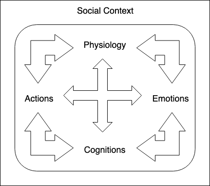 A diagram depicting the relationship between social context, physiology, actions, emotions and cognitions